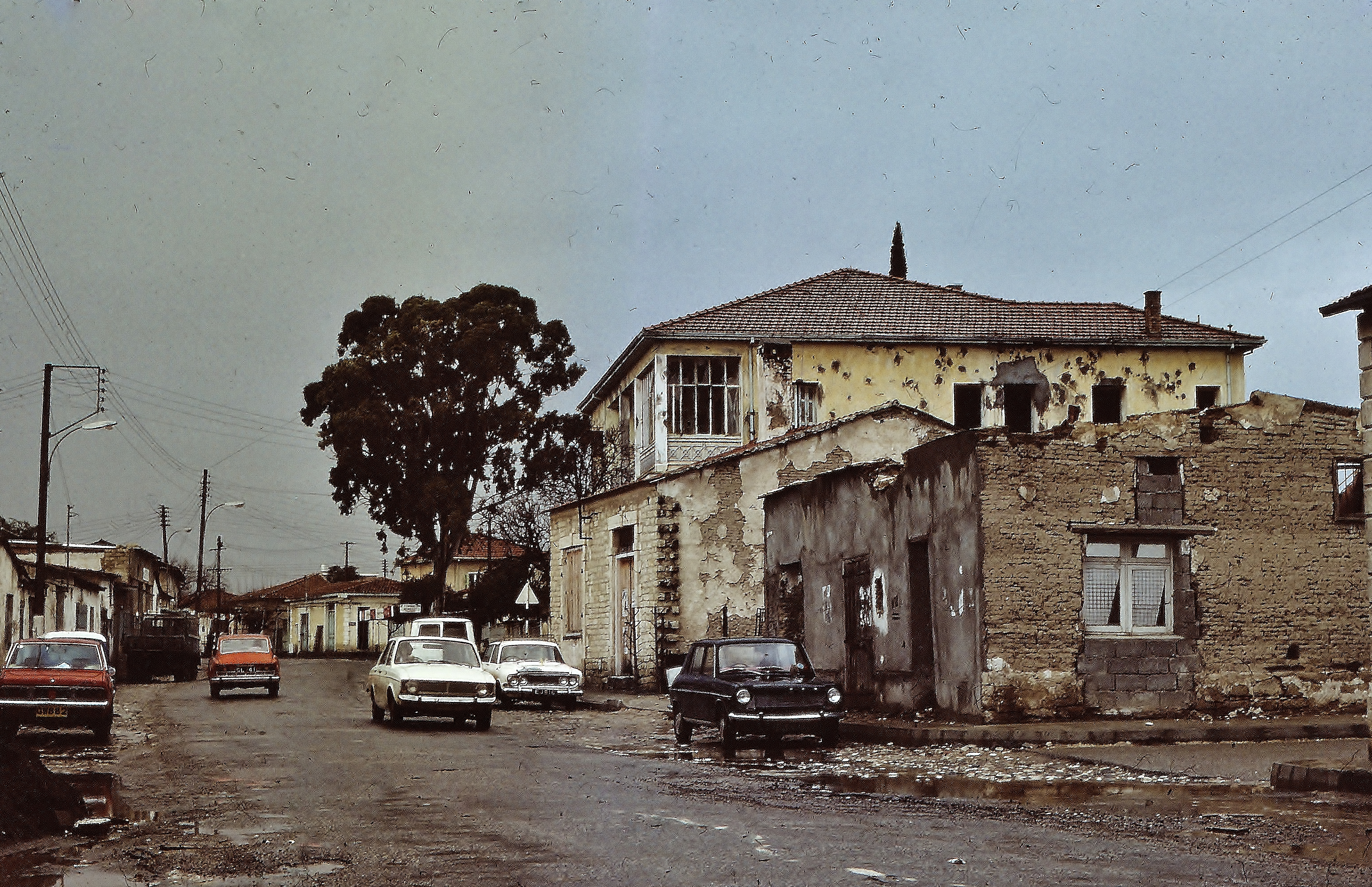 Outskirts of Nicosia which had been a battleground between Greek Cypriots and Turkish Cypriots.